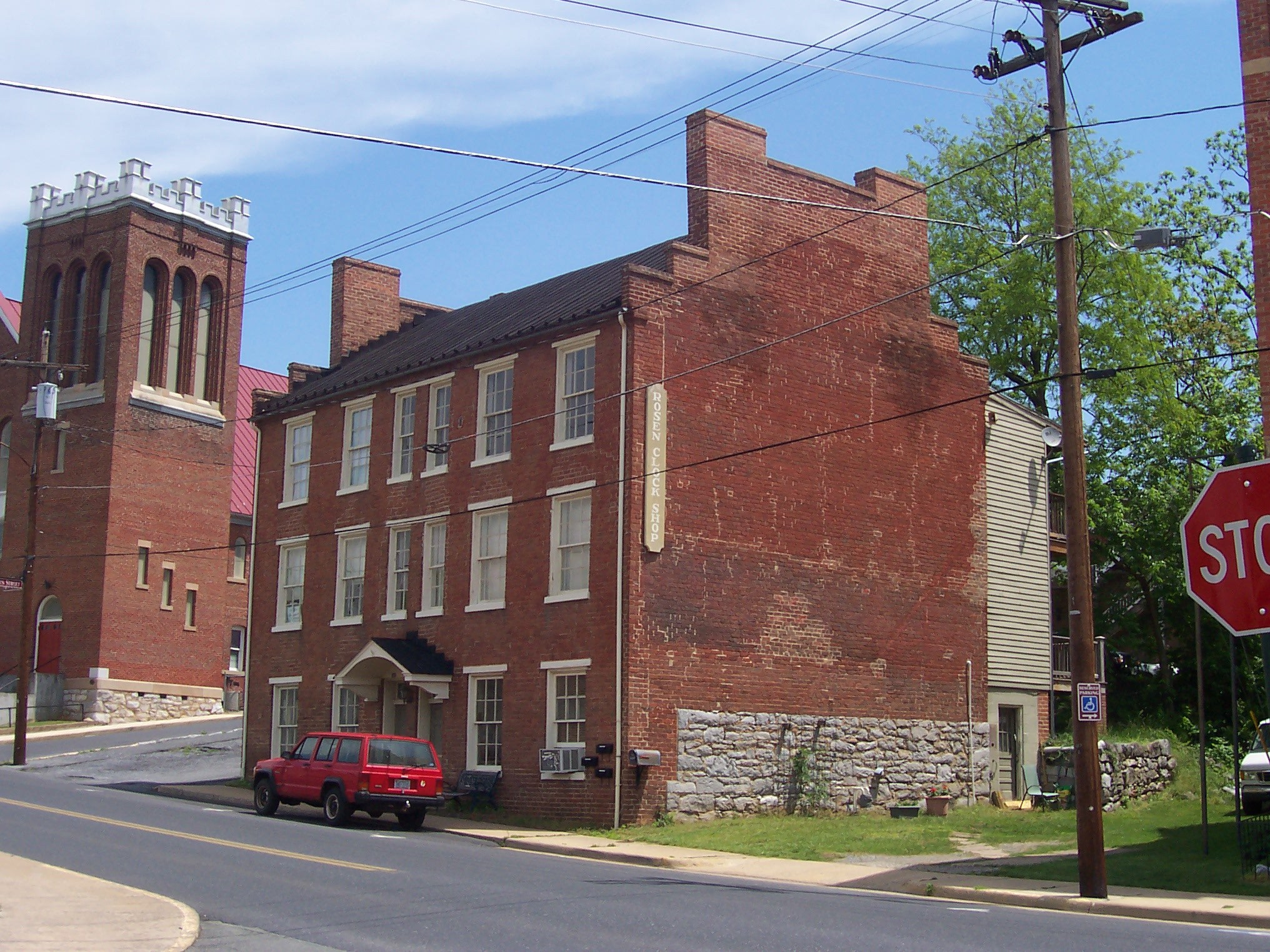 The former Valley Hotel built circa 1815.